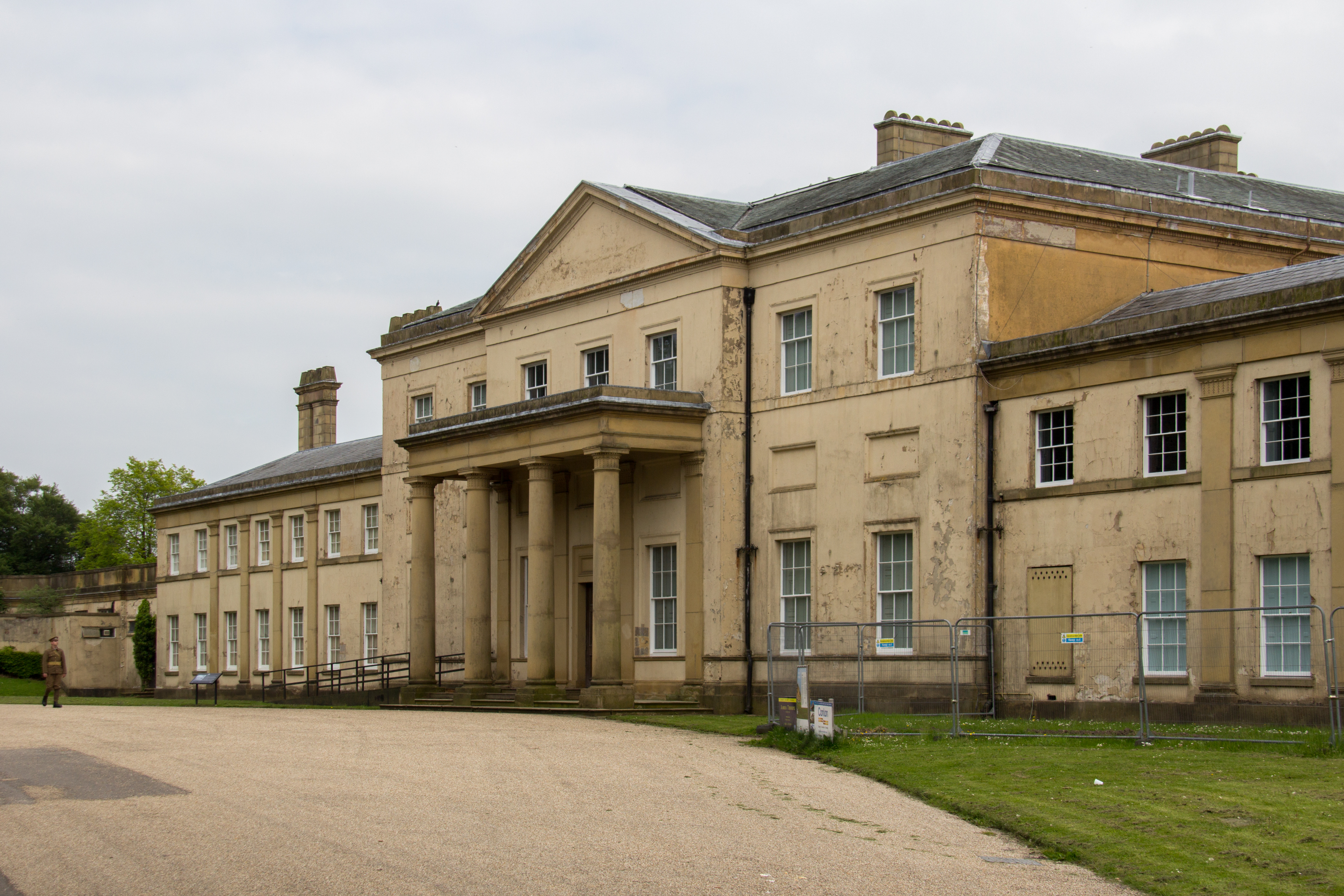 Heaton Hall, Heaton Park, Manchester, United Kingdom